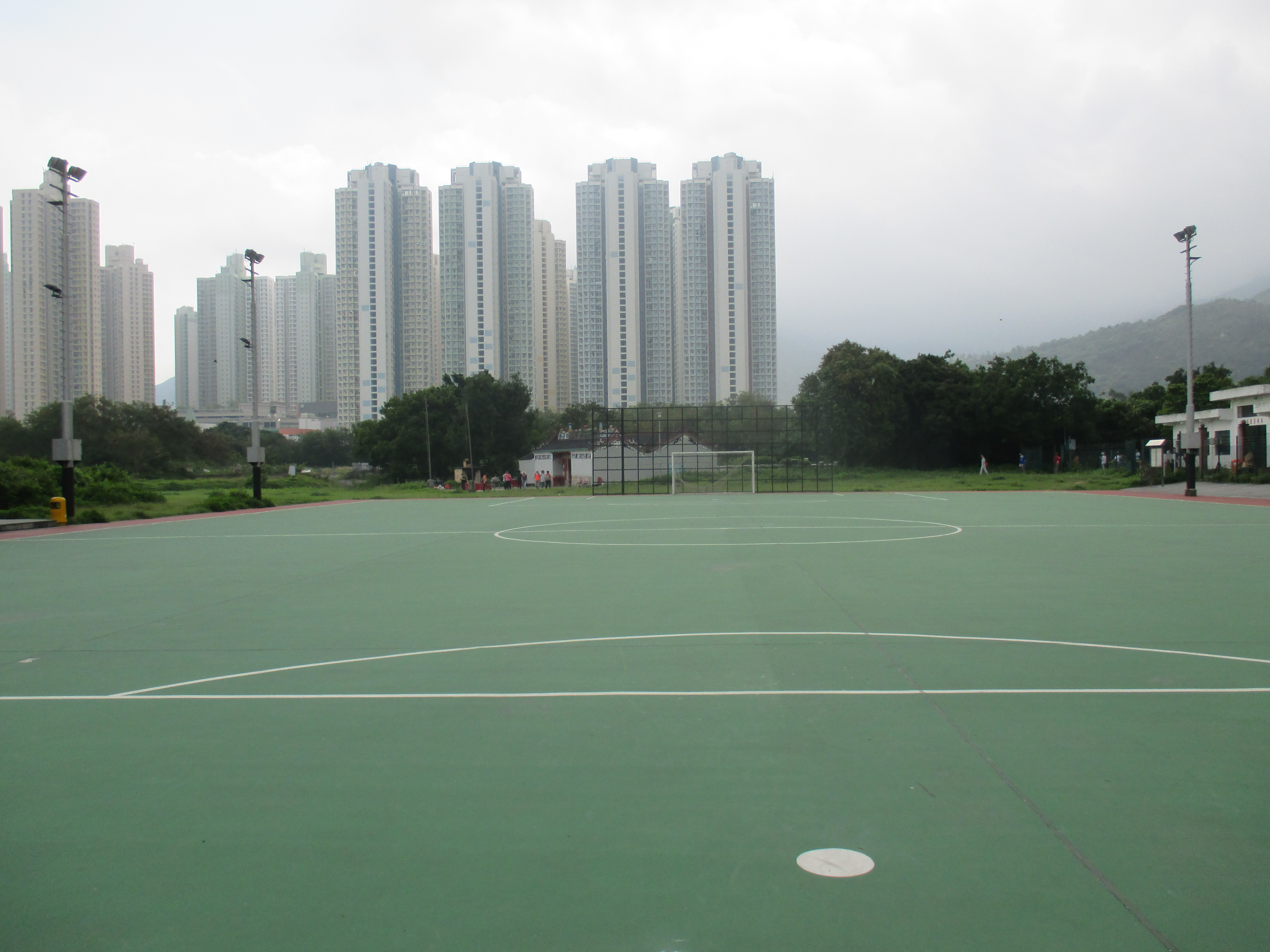 Hau Wong Temple, Tung Chung. Distant view.